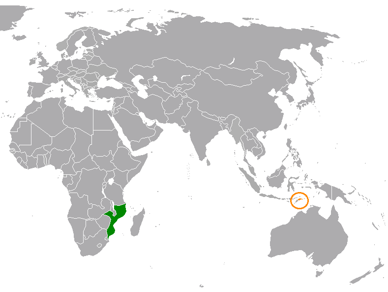 Map showing locations of both Mozambique and East Timor